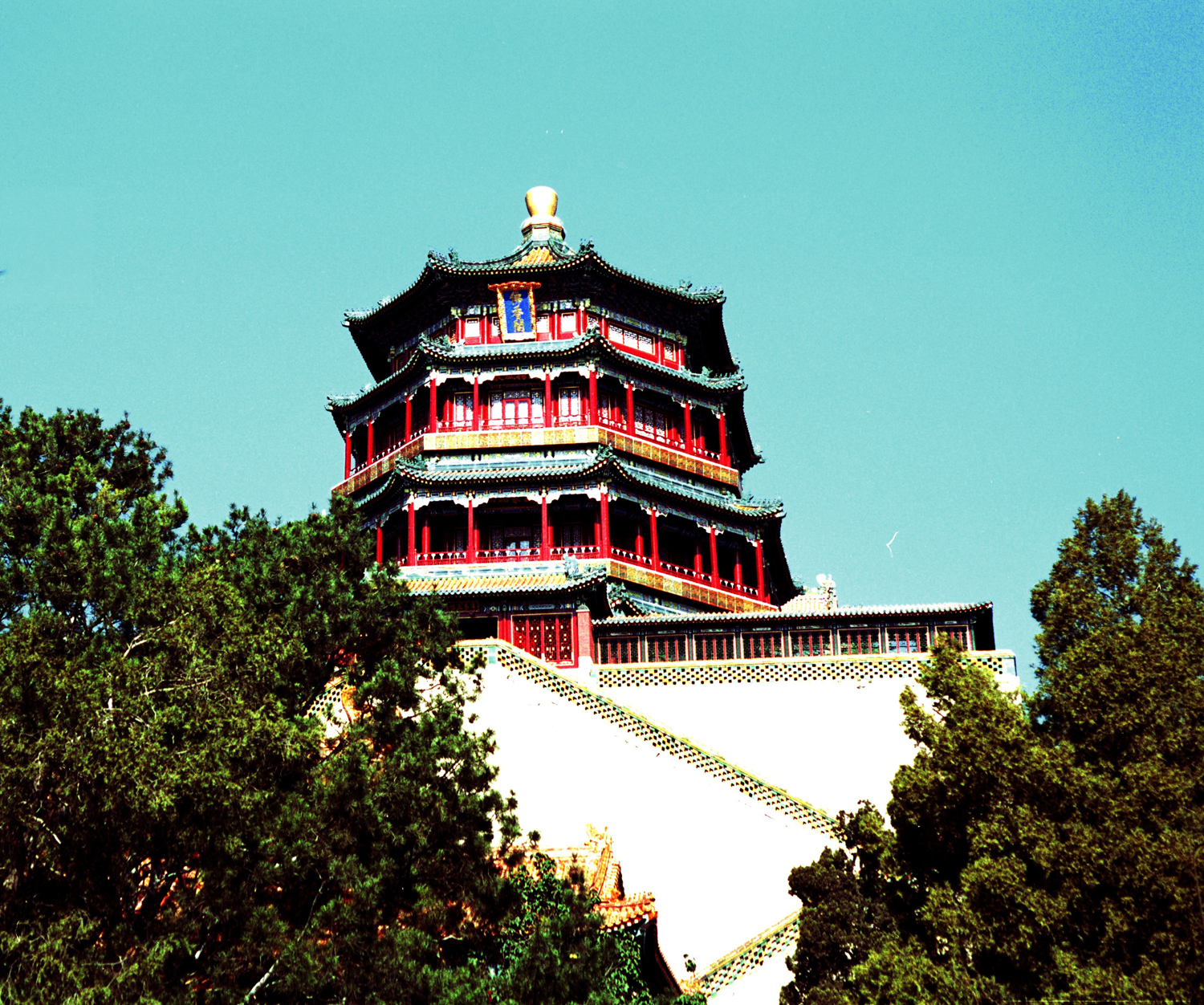 The Pavilion of the Buddhist Incense in the Summer Palace佛香阁